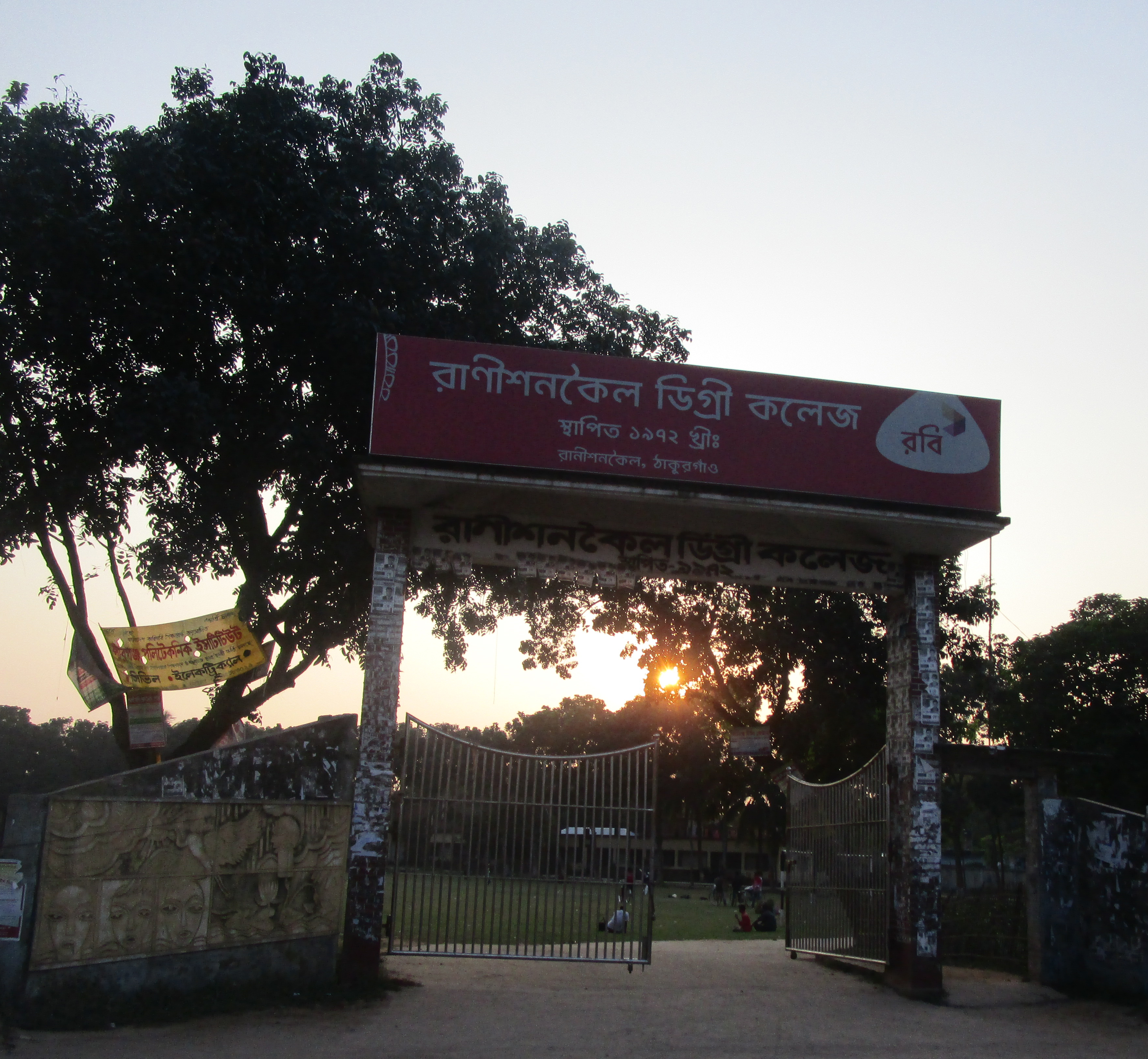 Ranisonkoil Degree College Nameplate.